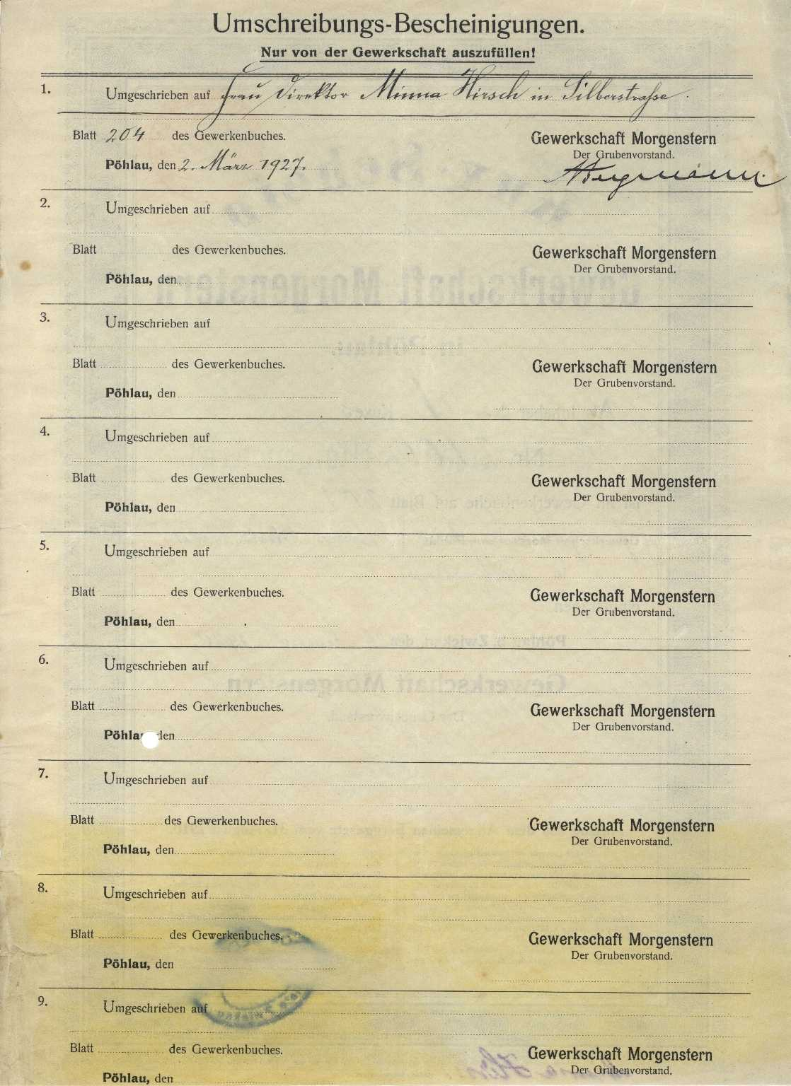 Reverse of a registered share certificate of Gewerkschaft Morgenstern coal mining company, Zwickau, Saxony, Germany; 1920